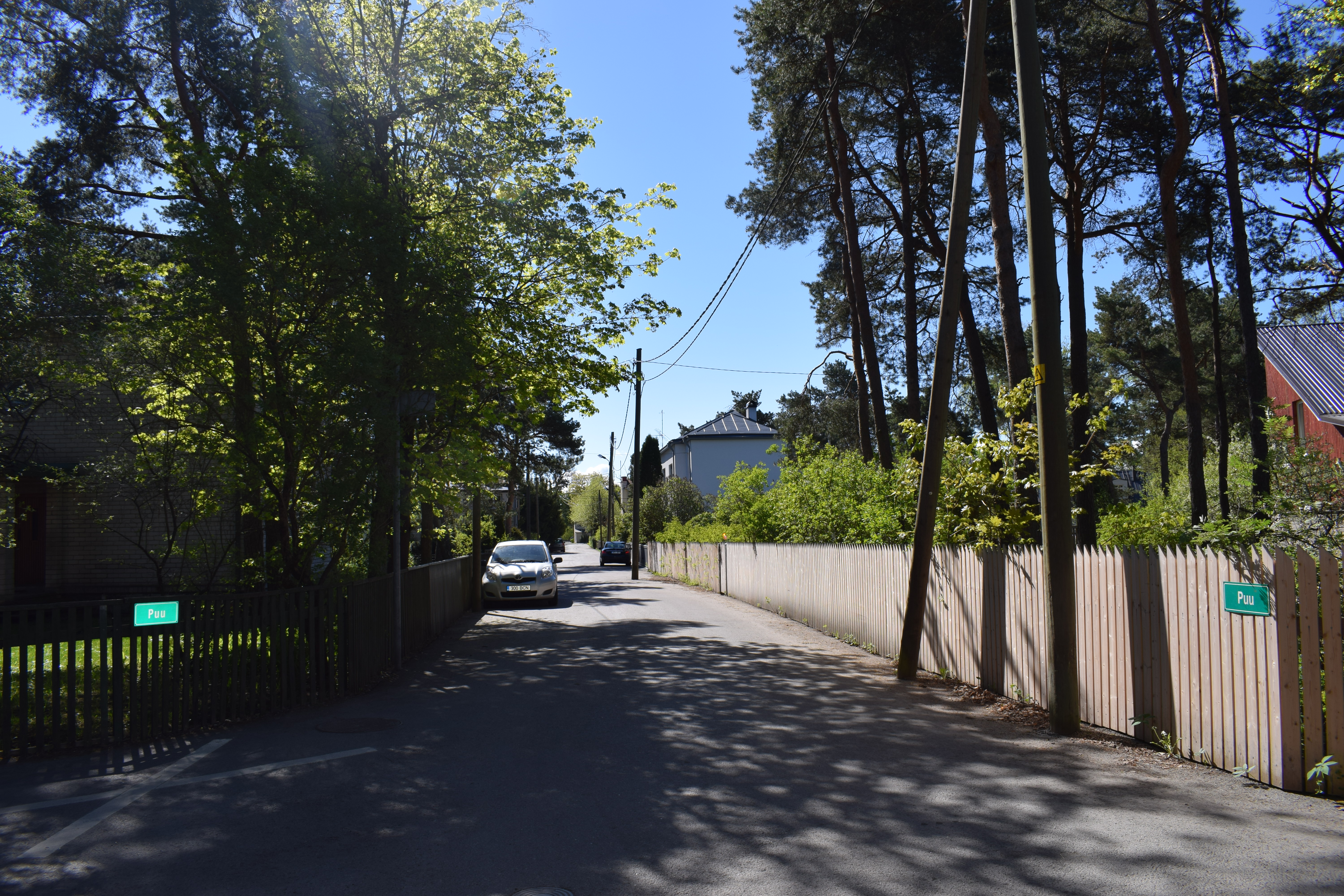 Puu street